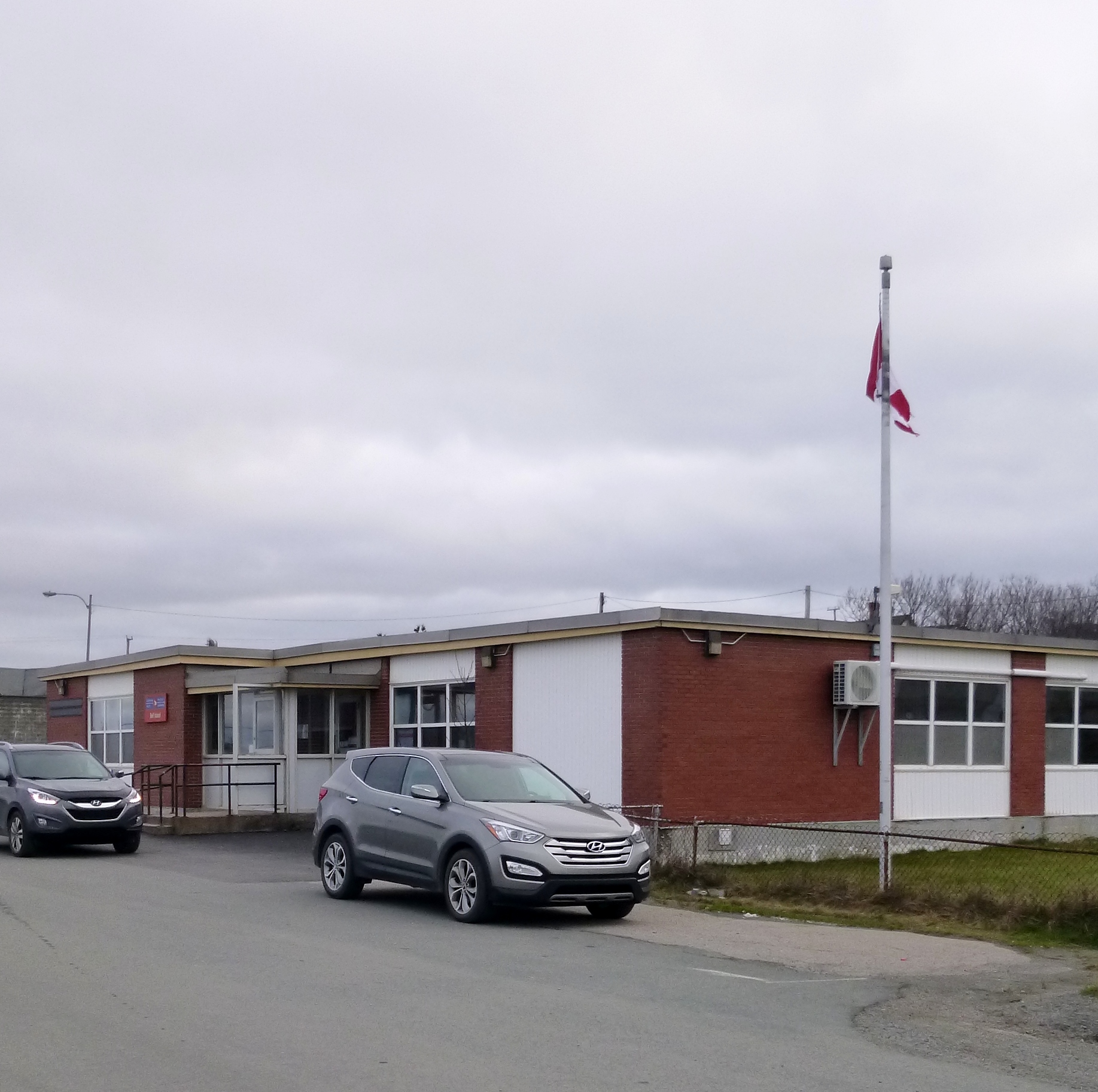 Federal post office in Wabana, Bell Island, Newfoundland and Labrador